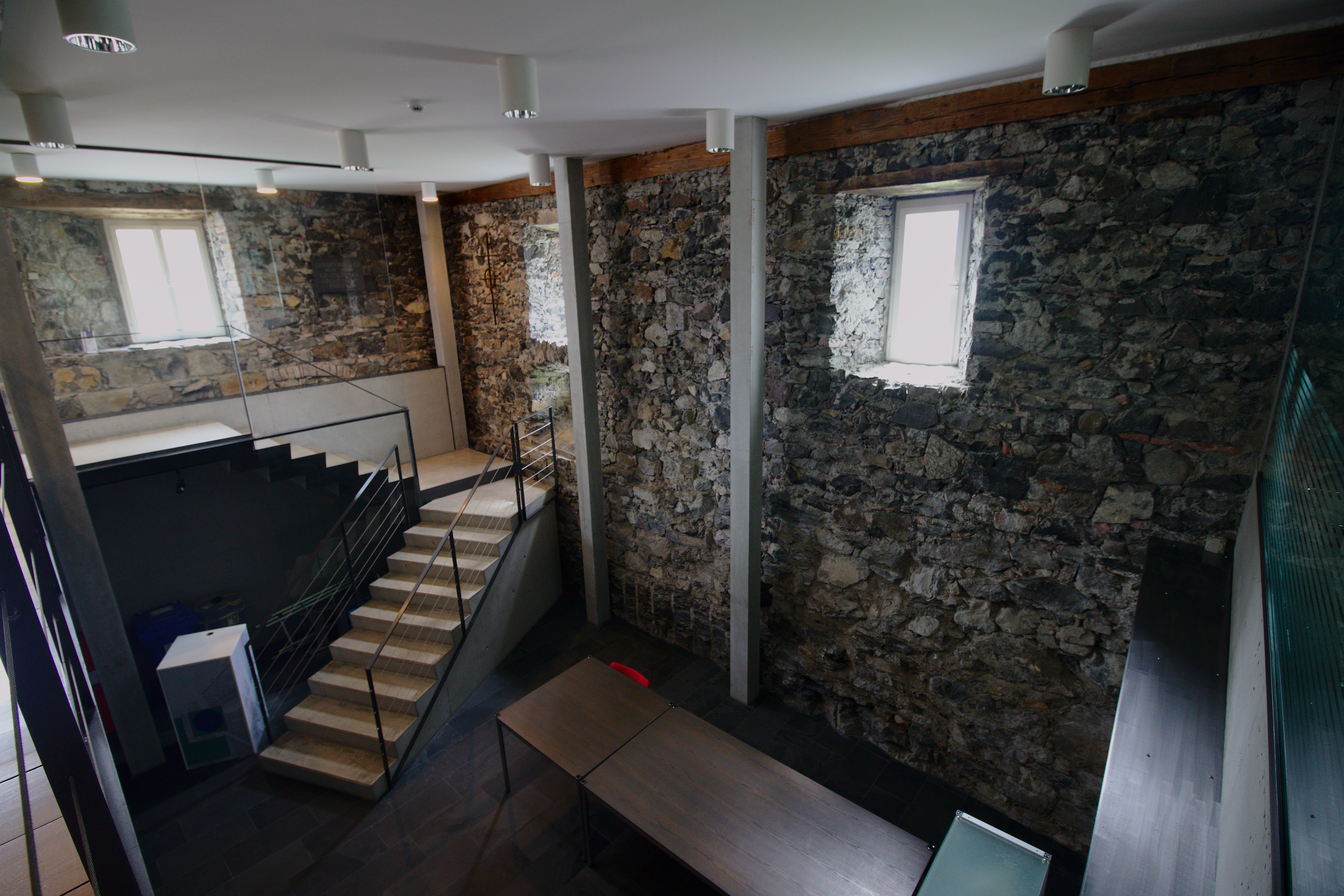 Liechtenstein Institute in Bendern, FL